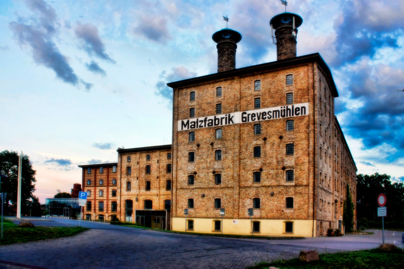 Malt Factory in Grevesmühlen